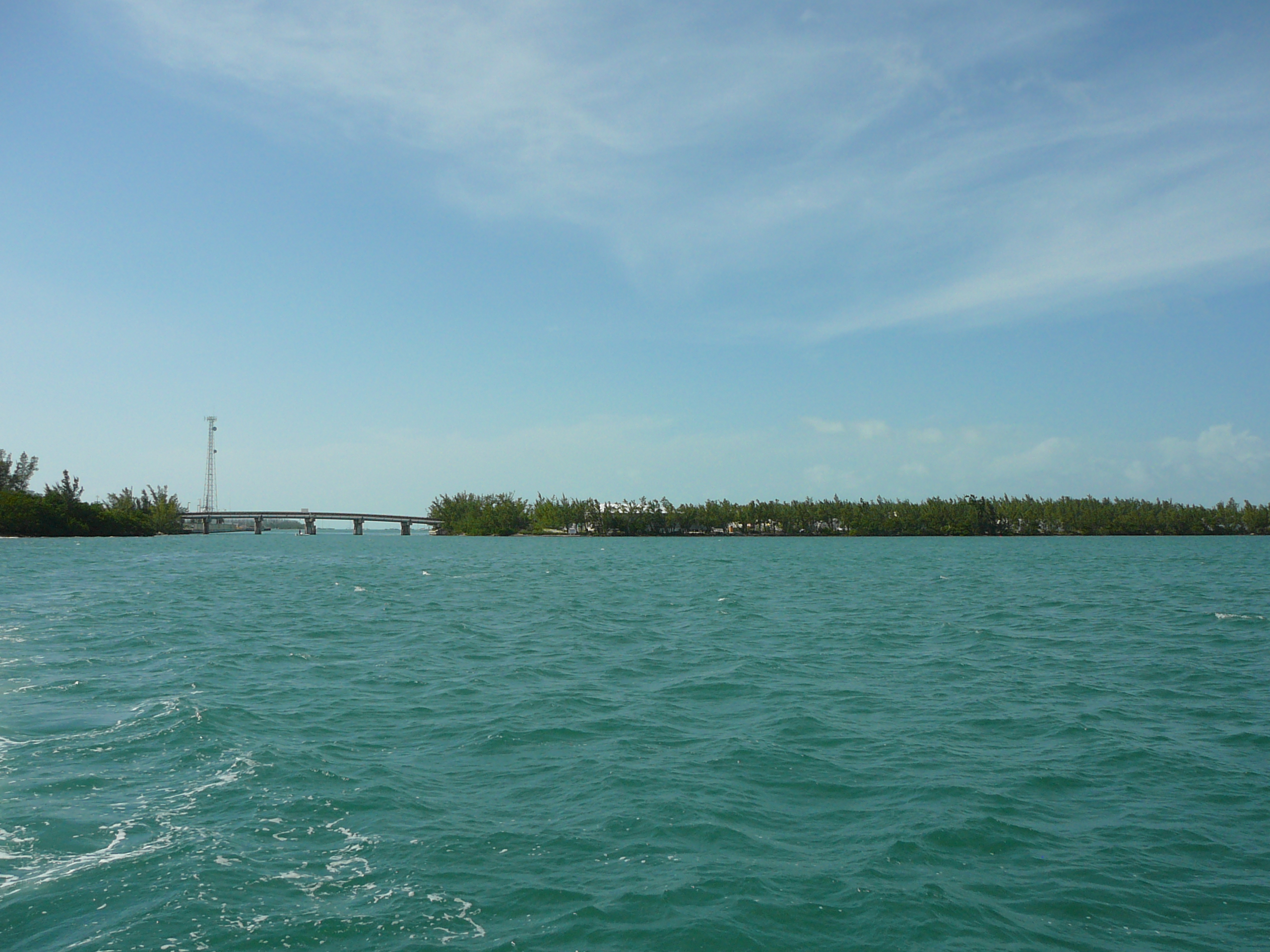 The south side of Fleming Key as seen from the east.